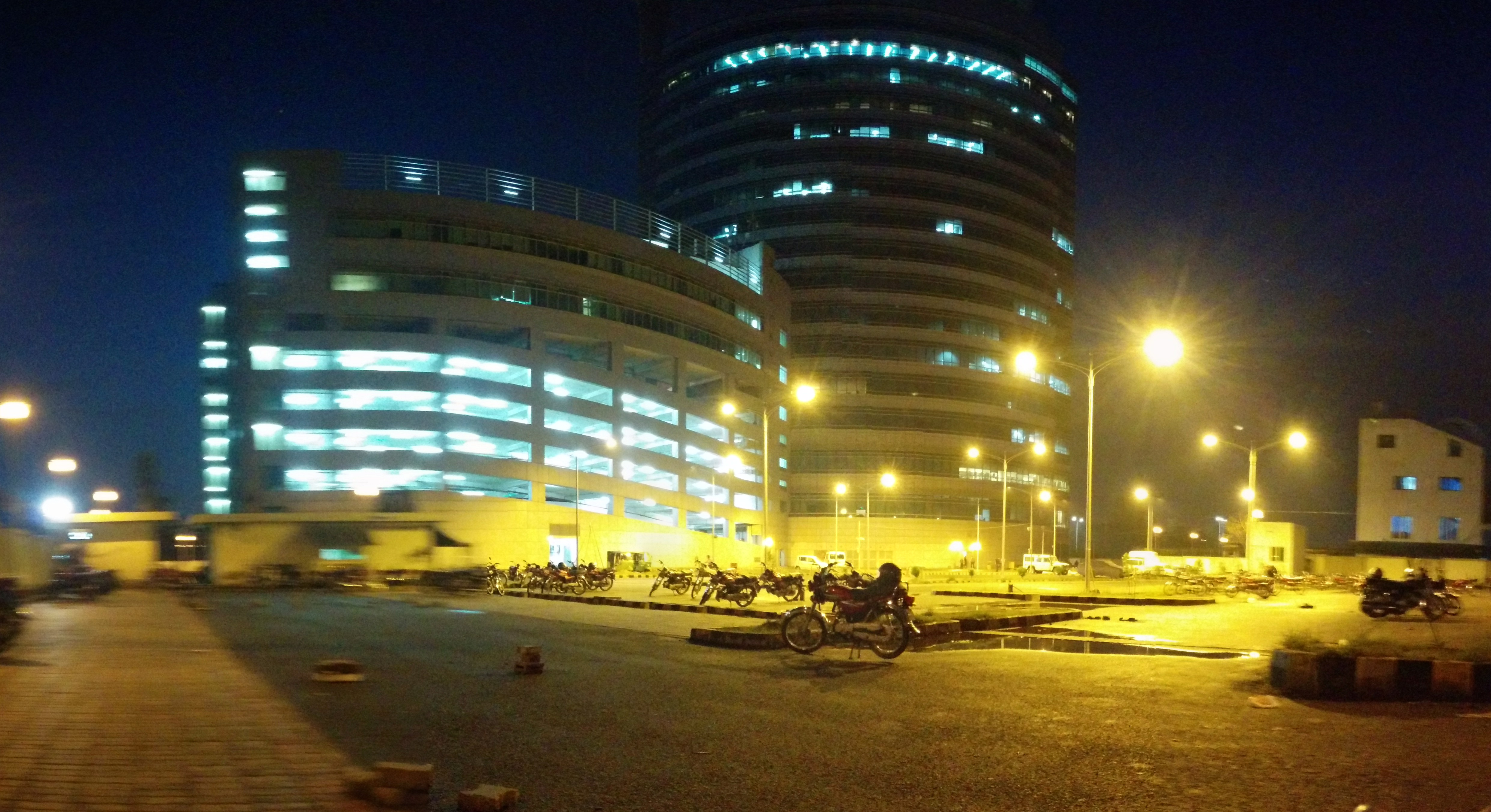 Arfa Software Technology Park, Lahore